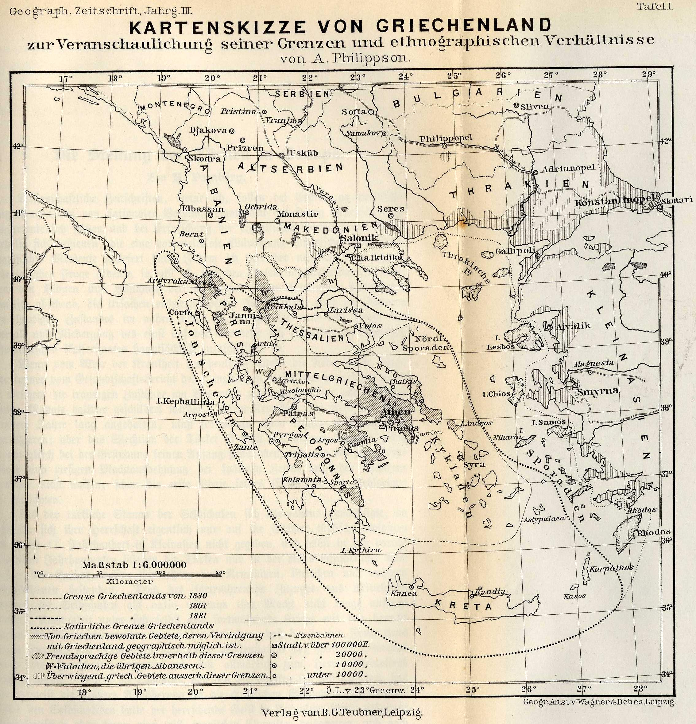 Ethnic map of Greece, by Alfred Philippson